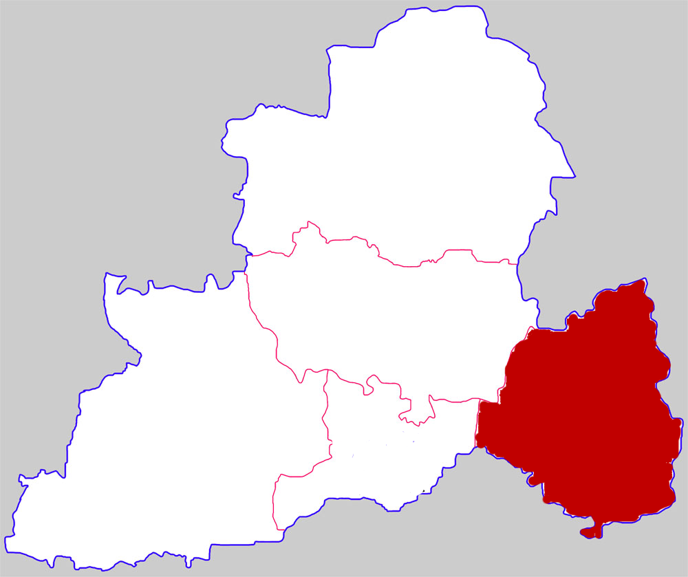 Location of Shaoling district in Luohe city, China